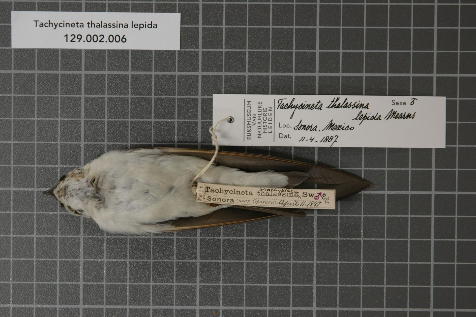 Tachycineta thalassina lepida Mearns, 1902